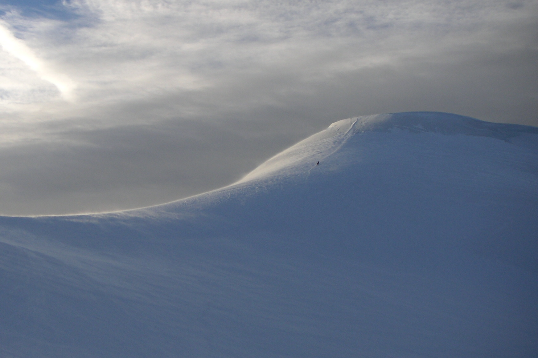 The peak of Vincent-Pyramide viewed from north-west